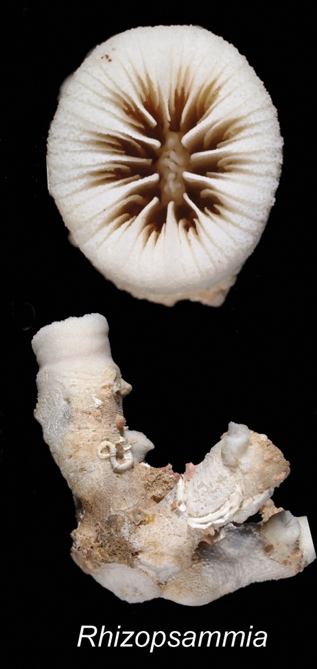 Cut-outs from original files: Recent_azooxanthellate_Scleractinia_(Cnidaria,_Anthozoa)_-_ZooKeys-227-001-g001 - 023